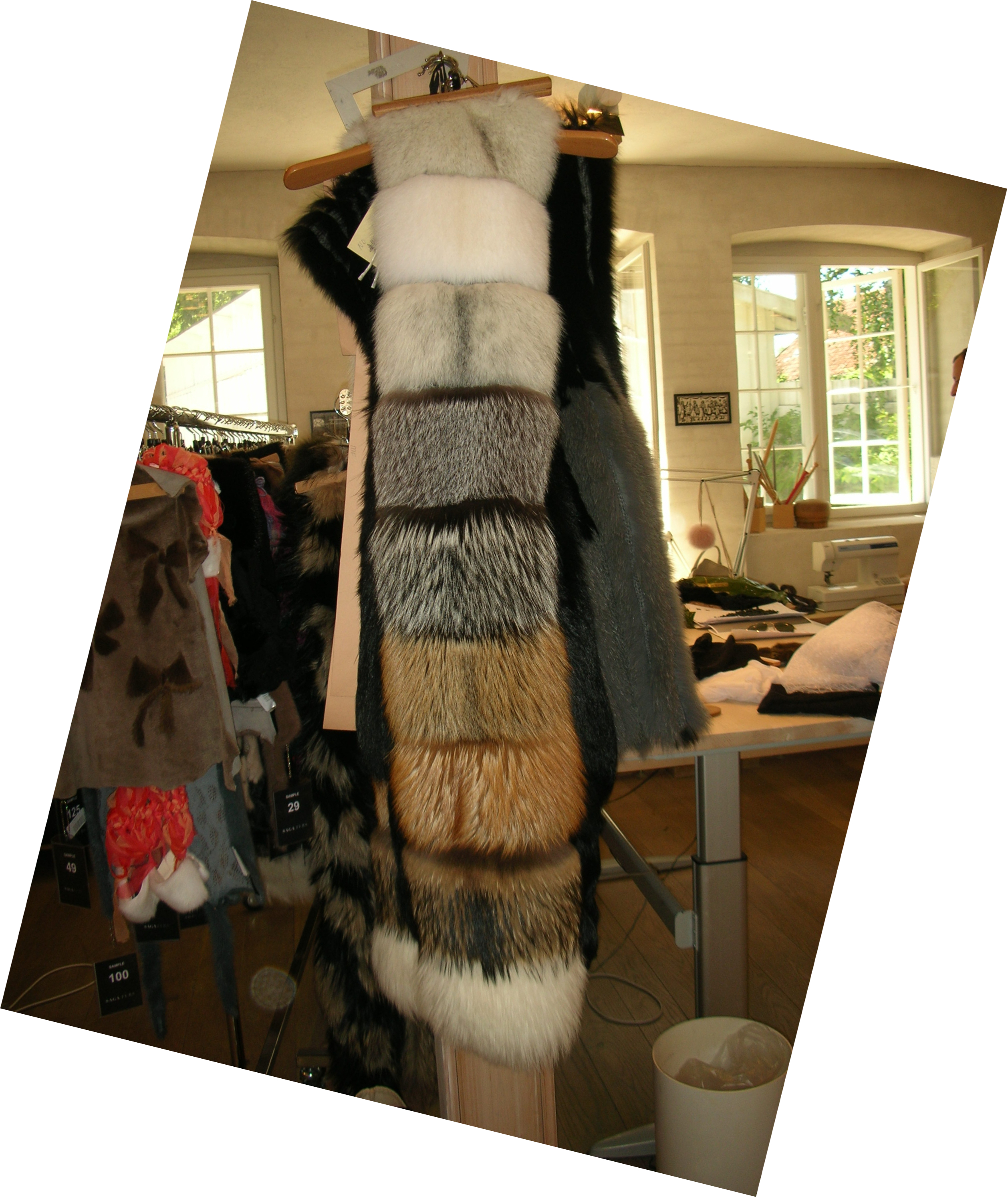 Fox pelt samples in the Saga Design Centre of the auction house Saga Furs in Denmark.